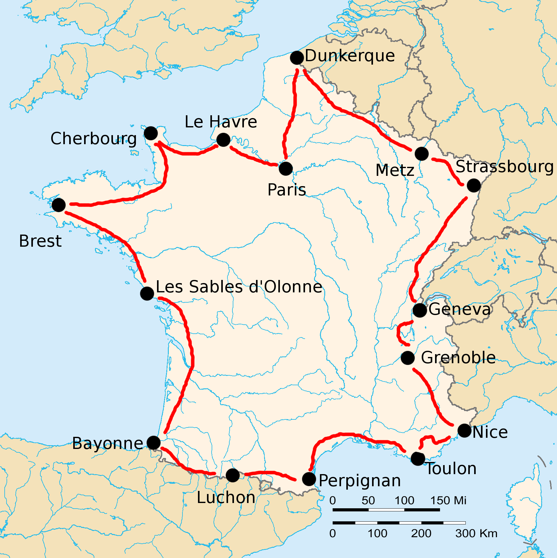 Route of the 1921 Tour de France, starting in Paris, run counter-clockwise.